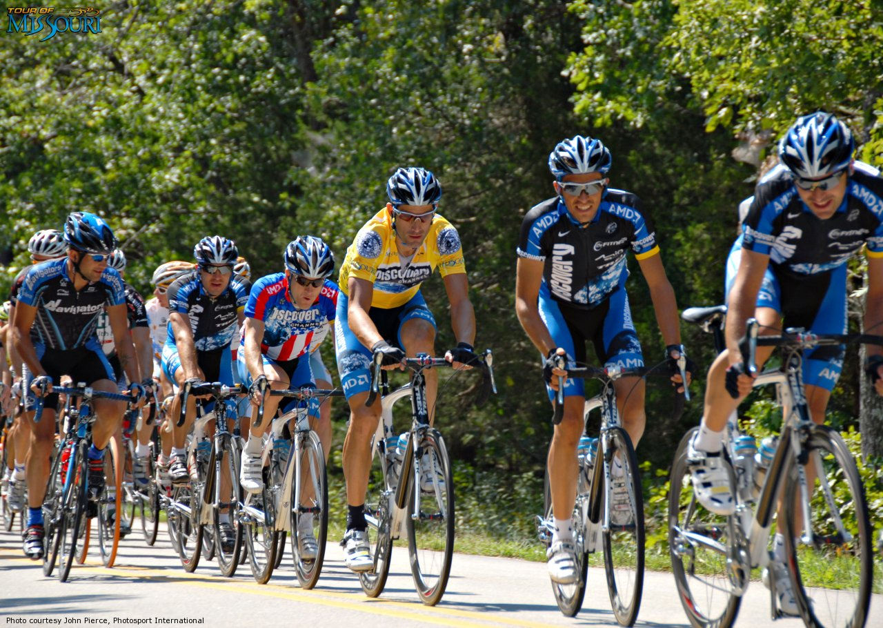 Tour of Missouri 2007: Discovery Channel riding for race leader George Hincapie in yellow, who follows Alberto Contador, with US National Road Champion Levi Leipheimer sitting on Hincapie's wheel, and Yaroslav Popovych behind him.